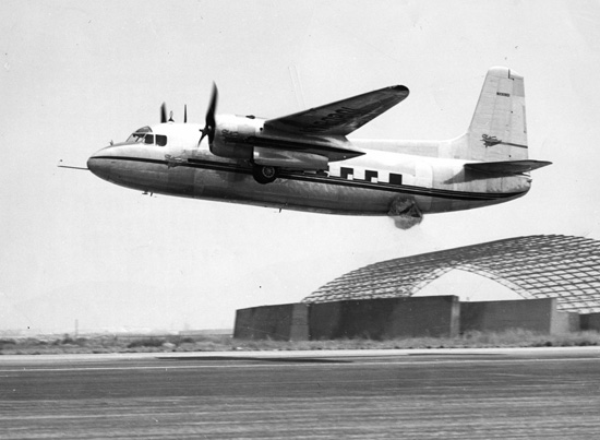 Lockheed L-75 Saturn